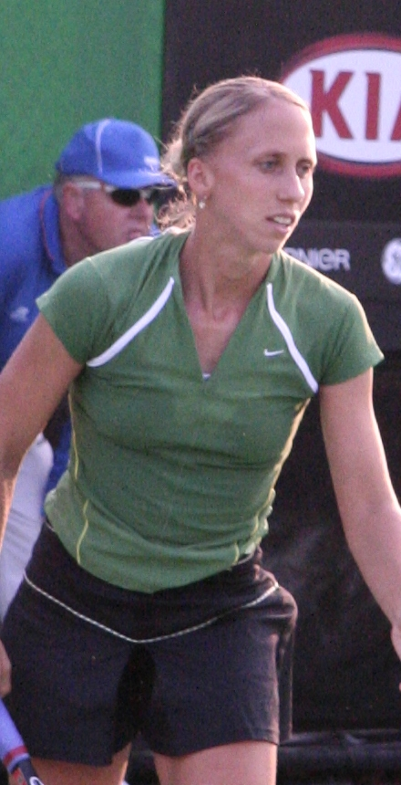 Julia Schruff at their first-round match of the 2007 Australian Open.